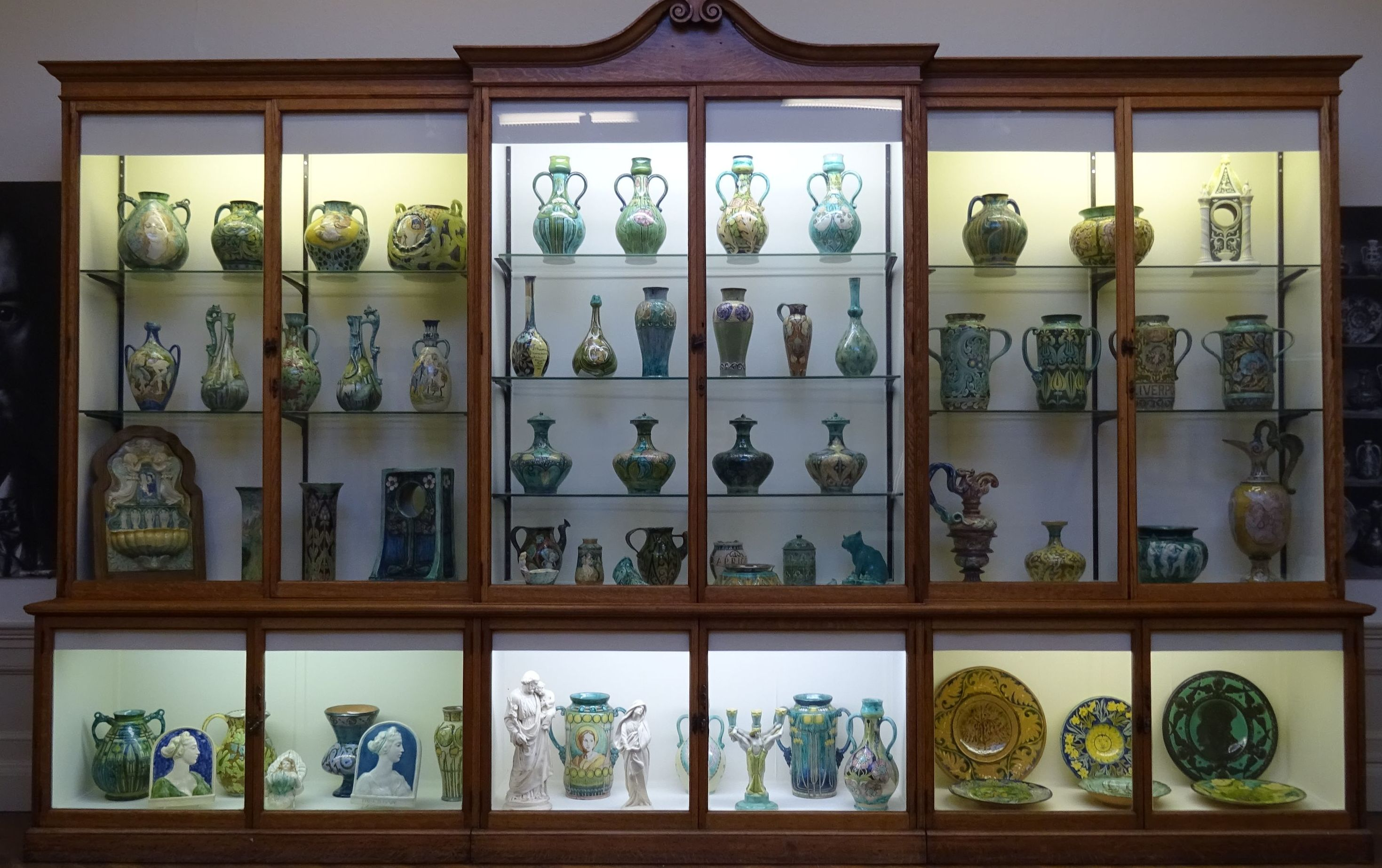 Collection Della Robbia Pottery, Williamson Art Gallery, Birkenhead, Merseyside, England.